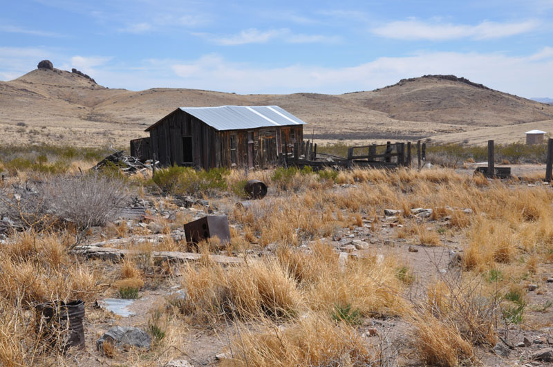 The mining town of Lake Valley was founded in 1878 after silver was discovered. Almost overnight, the small frontier town blossomed into a major settlement with a population of 4,000 people. Today, silver mining has played out and all that remains is a ghost town. BLM has restored the schoolhouse and chapel. The restored schoolhouse provides a glimpse of what schooling in a rural area was like in the early 20th century. Other buildings in the town site have been stabilized to slow further deterioration. There also is a self-guided, interpretive walking tour. Watch a video about Lake Valley’s history: Then plan a visit